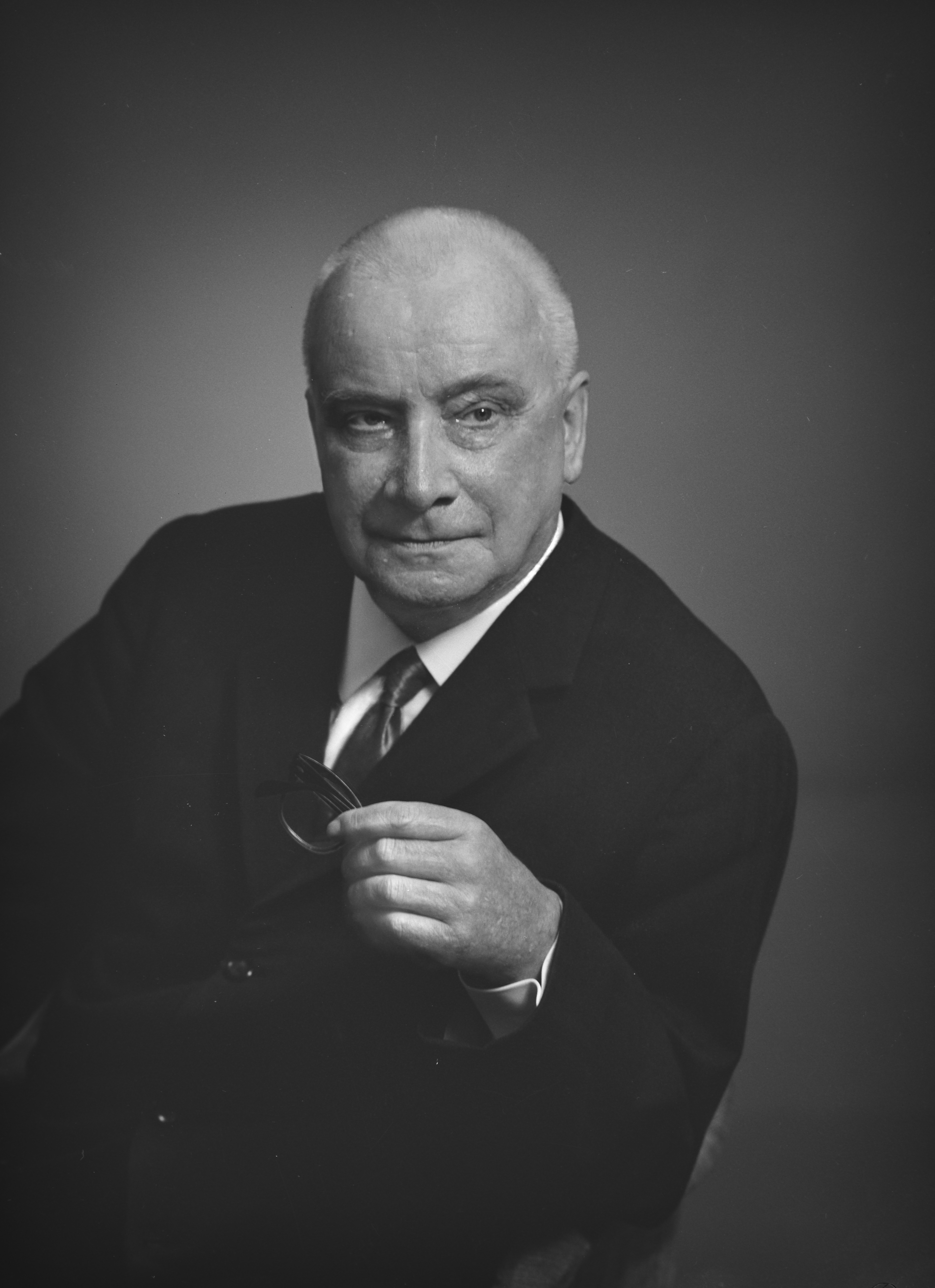 Photograph of the Finnish mathematician Frithiof Nevanlinna (1894–1977).